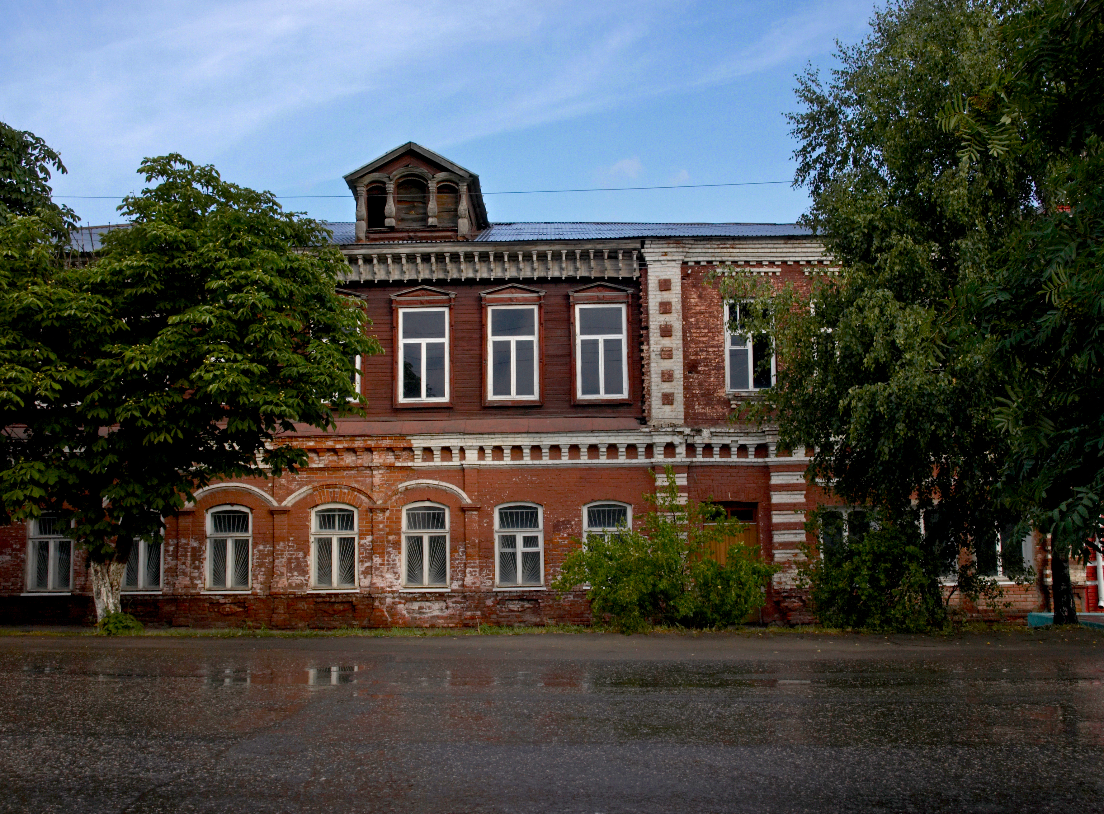 Old building in the center of Alatyr'